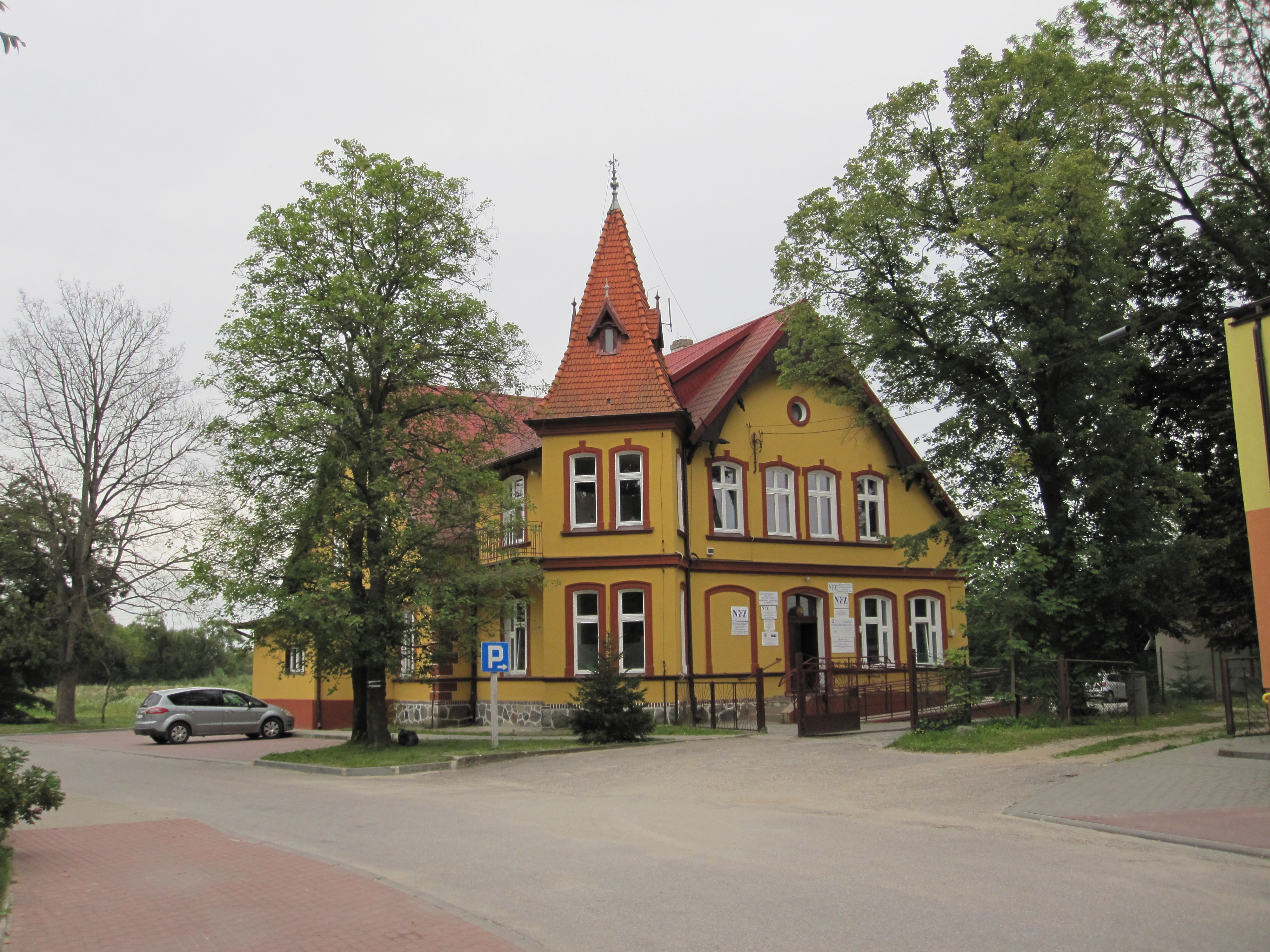 Building on 12 Cierniaka street in Orzysz